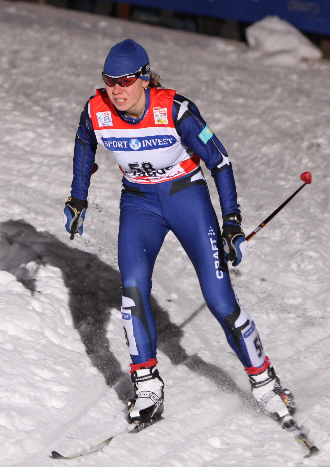 Tatyana Andreyevna Roshchina-Osipova; cross-coutry skier from Kazakhstan, photographed in 2010